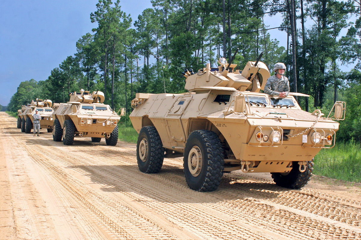 It may have been 98 degrees with a heat index of about 105 out on Fort Stewart’s Multi-Purpose Range Complex, but Christmas came early for 36 Soldiers of Augusta’s 278th Military Police Company and the Military Police Platoon belonging to Macon’s 48th Brigade Special Troops Battalion who are the first to get their hands on 12 of the Georgia Army Guard’s new M1117 Armored Security Vehicles. Manufactured by Textron Marine and Land Systems in New Orleans, the ASV is an armored wheeled vehicle equipped with a turret and armament system designed to meet the security mission requirements (i.e., quick reaction force, main supply route and convoy security) of the Military Police Corps. It is a 4-wheel-drive vehicle equipped with a 260 horsepower diesel engine, 6-speed automatic transmission and all-wheel independent suspension that offers a quality ride while providing superior mobility, agility and handling. Sergeant 1st Class Meara Brown, non commissioned officer-in-charge of training for Decatur’s 170th MP Battalion – the 278th’s parent headquarters – said the battalion took possession of its nine vehicles on June11. The other three ASVs belong to Macon’s 48th Brigade Special Troops Battalion. These Georgia Soldiers, and 25 troops from elements of the Puerto Rico Army Guard’s 124th and 125th MP battalions, have already completed the better part of a week of operator and maintenance training.Now the Soldiers are out here getting familiarized with the vehicle’s weapons systems. “I’m here to tell you, it’s like riding in an air-conditioned Cadillac,” said Sgt. James KleinHeinz, a team leader with the 278th’s 1st Platoon and the unit safety NCO. Patting the nose of his vehicle as it sat in the MPRC staging area, he added, “There’s just no comparison between it and the ride you have in a Humvee. It’s like day and night.”